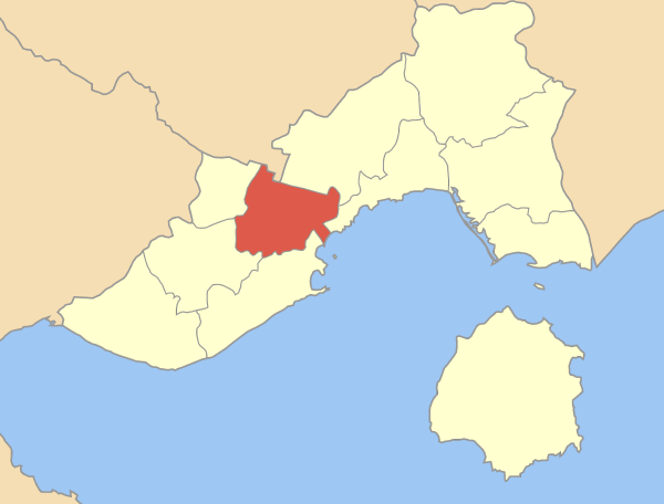 Locator map of Eleftheroupoli municipality (Δήμος Ελευθερούπολης) in Kavala prefecture (Νομός Καβάλας) in Greece.